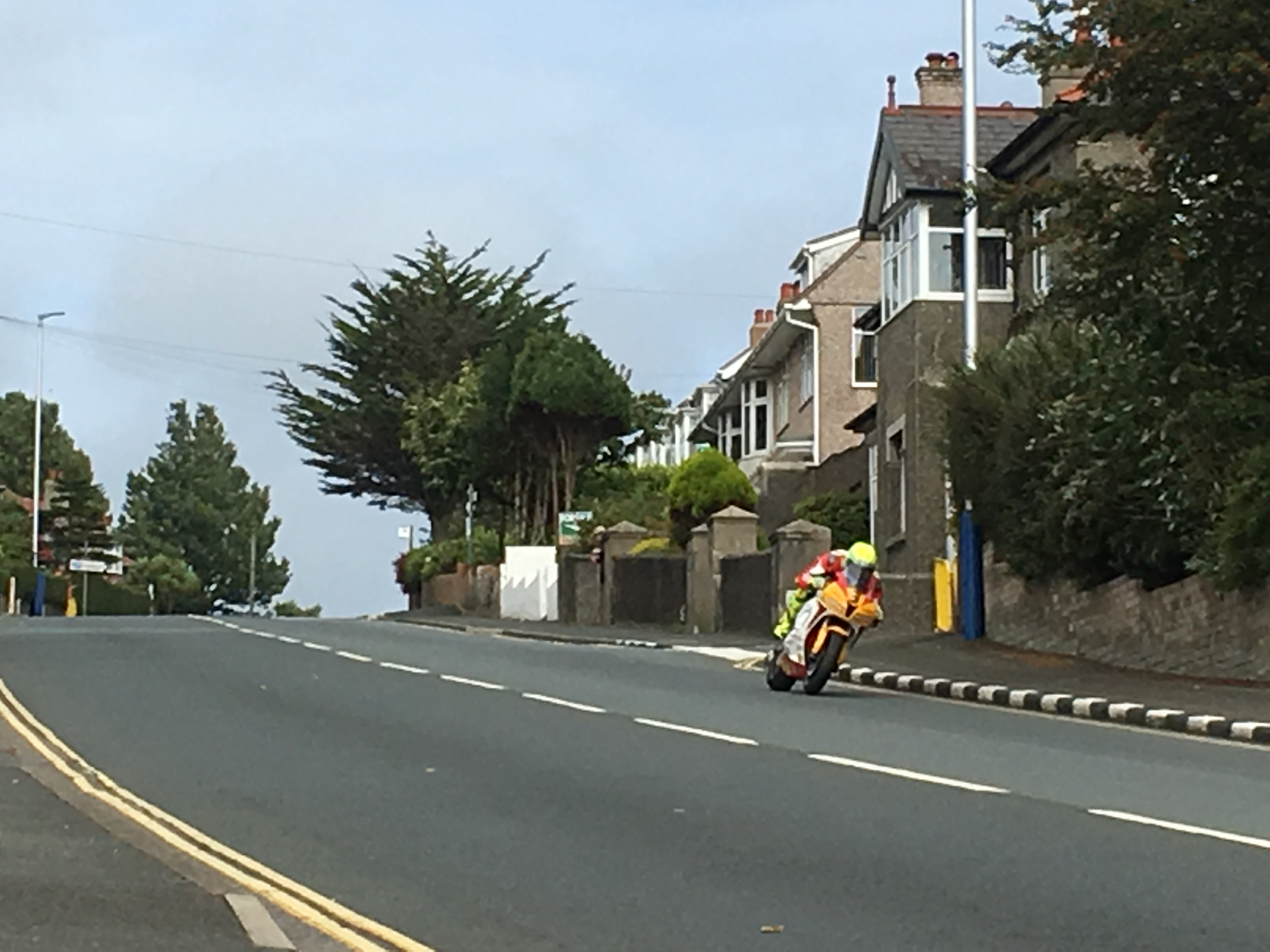 2019 Senior Manx Grand Prix